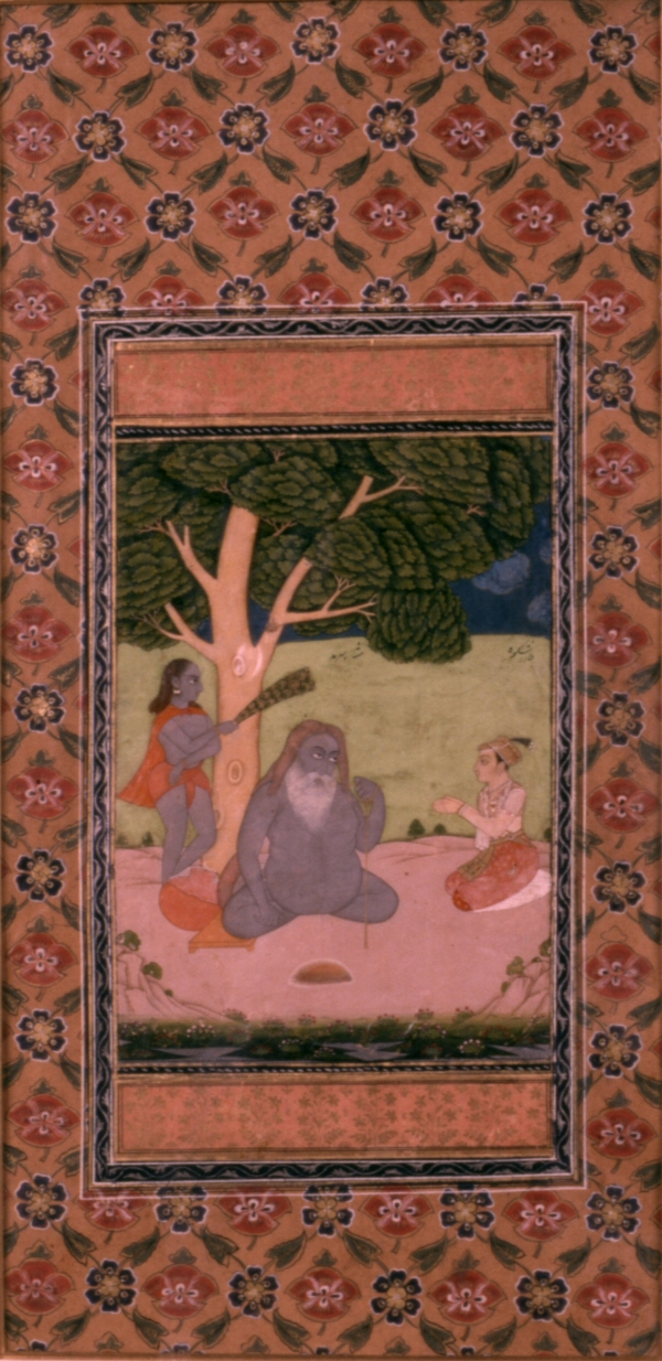 According to inscriptions written in Nasta'liq script, this painting, Walters manuscript leaf W.912, depicts the Mughal prince Dara Shikoh (born 1024 AH/AD 1615) and the holy man Shah Sarma seated under a tree. Behind the wise man stands an attendant with a peacock-feather fan. A celebrated scholar, sufi, and ruler, Dara Shikoh was the eldest son of Shah Jahan. On the back is a page of calligraphy signed with the epithet Jawahir raqam. There are wide polychrome and illuminated borders on both sides of the leaf.